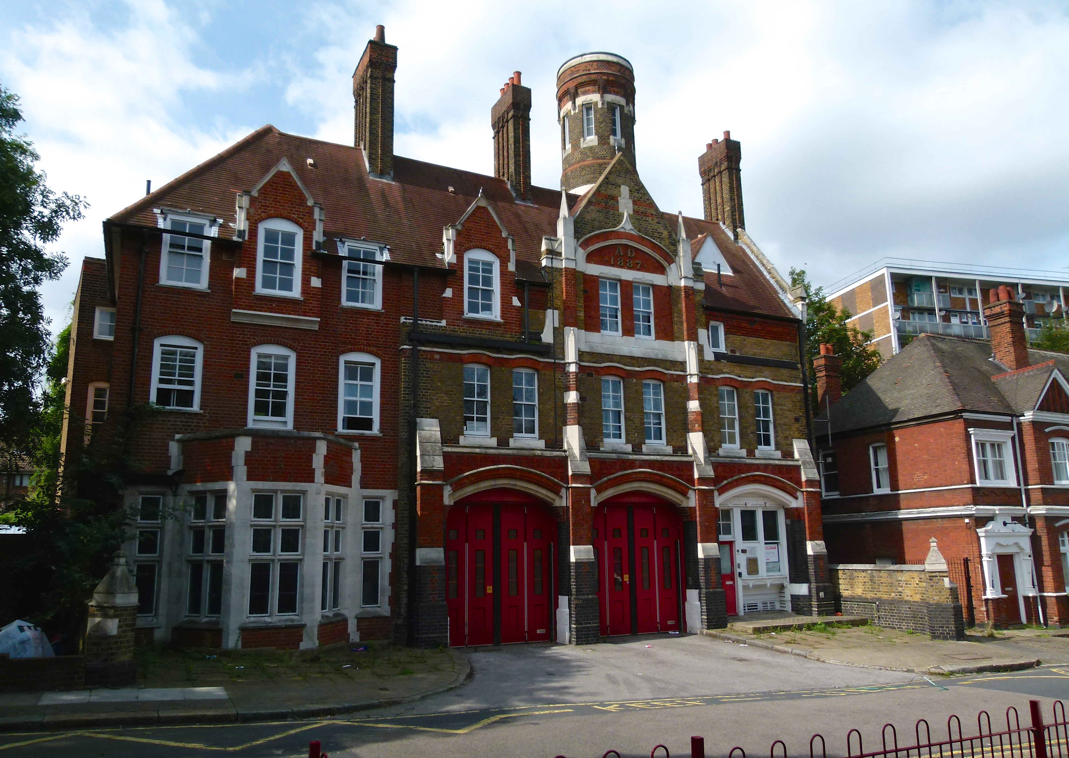 View of the former fire station (closed in 2014) in Sunbury Street, Woolwich, South East London.